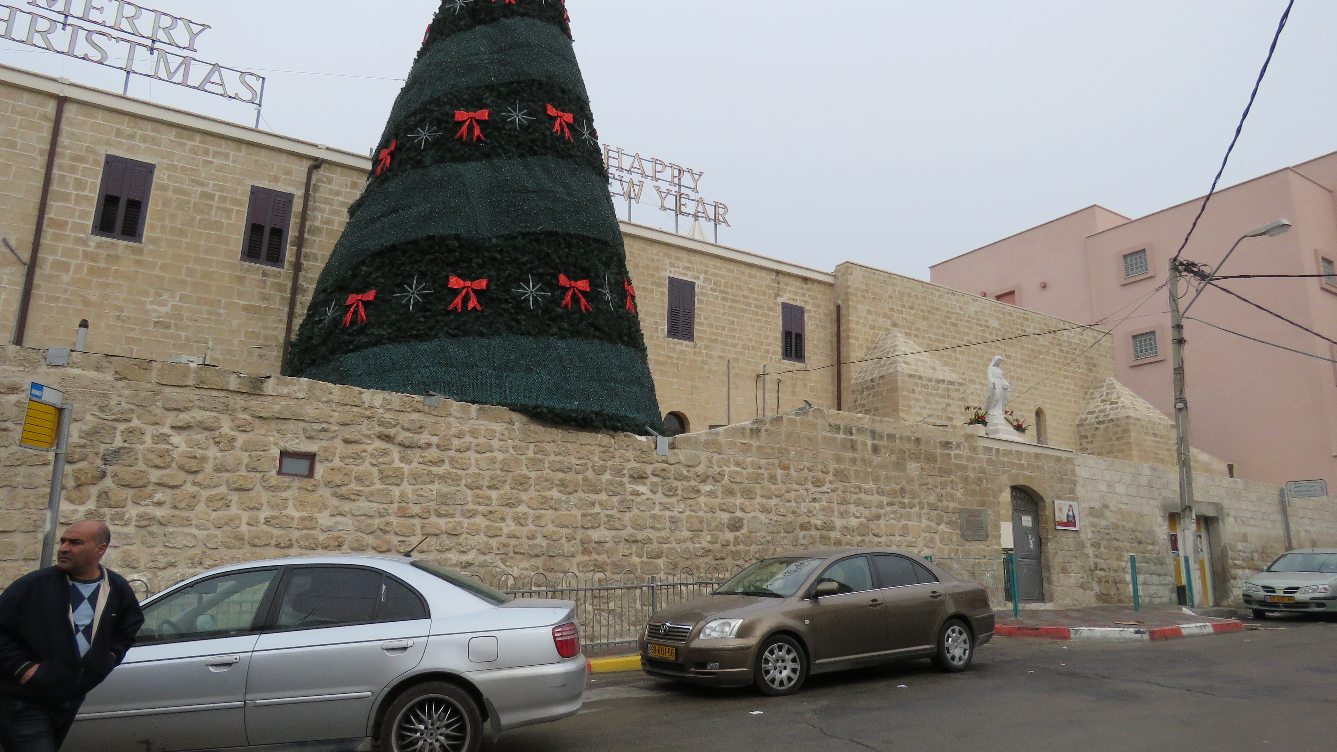 Monastery and Church Sisters of Nazareth Shfar'am